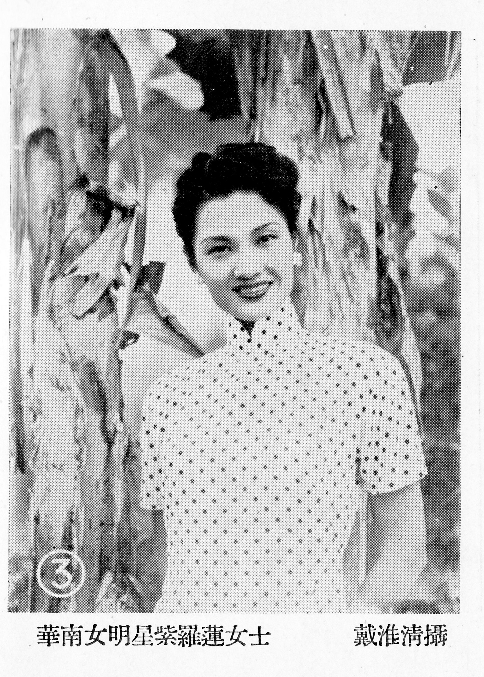 Photo of movie star Zi Luolian in 1952